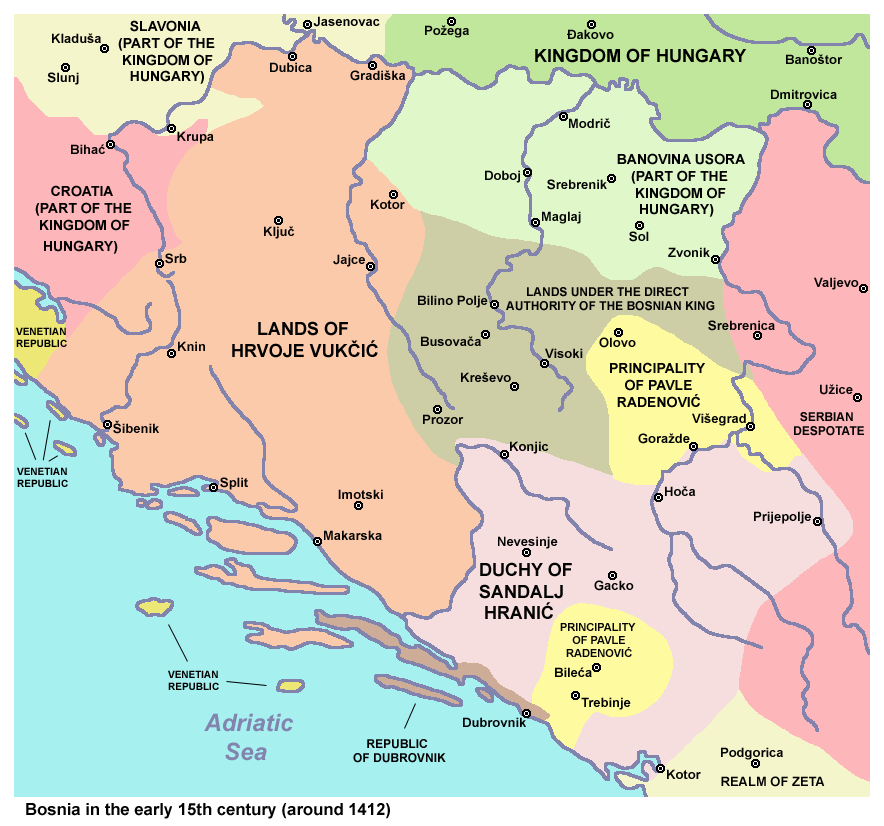 Bosnia in the early 15th century (around 1412) - Lands of Hrvoje Vukčić, Duchy of Sandalj Hranić, Principality of Pavle Radenović, Banovina Usora and Lands under the direct authority of the Bosnian king.